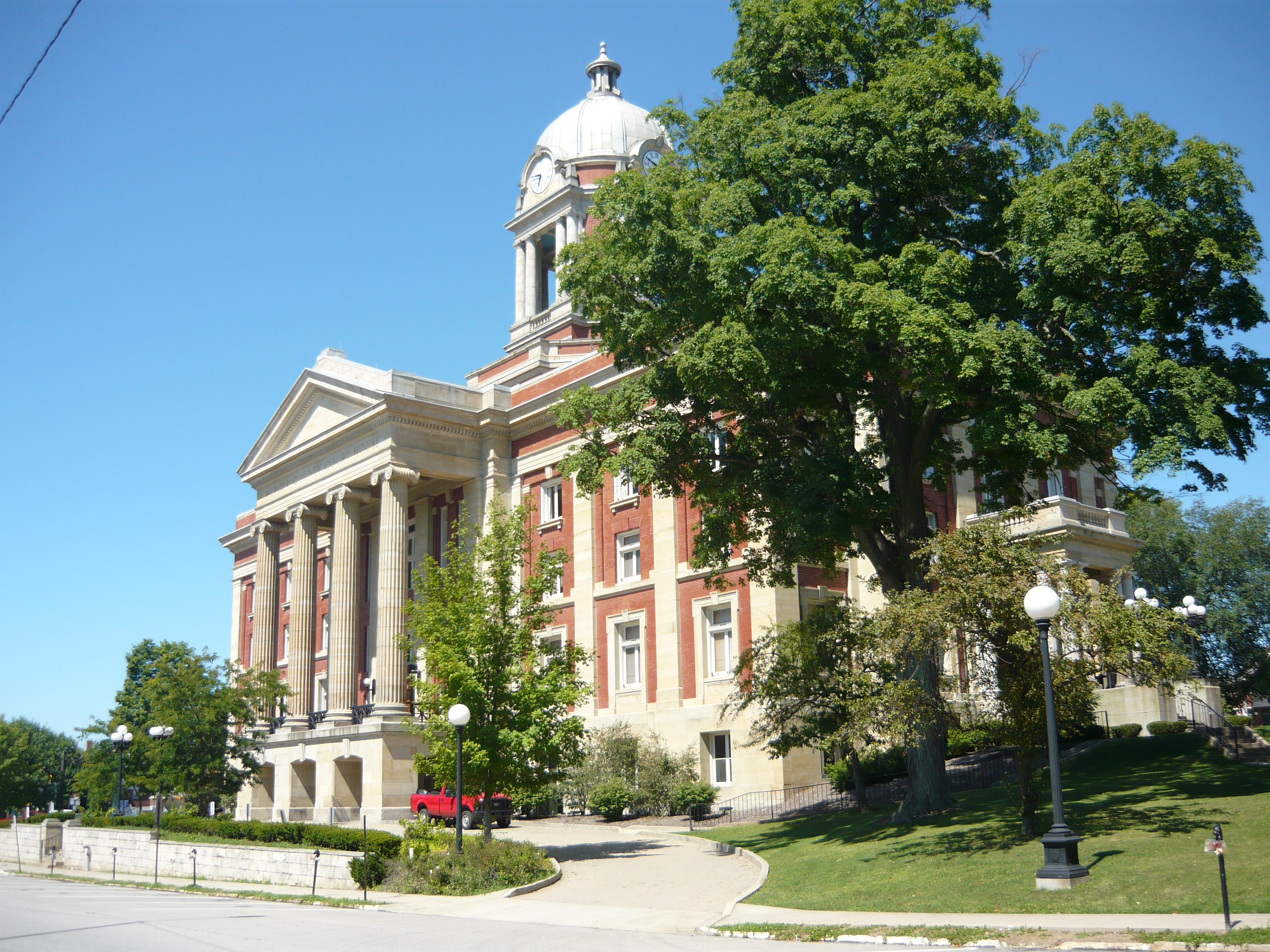 Mercer County Courthouse, Mercer, Pennsylvania. Built 1909.